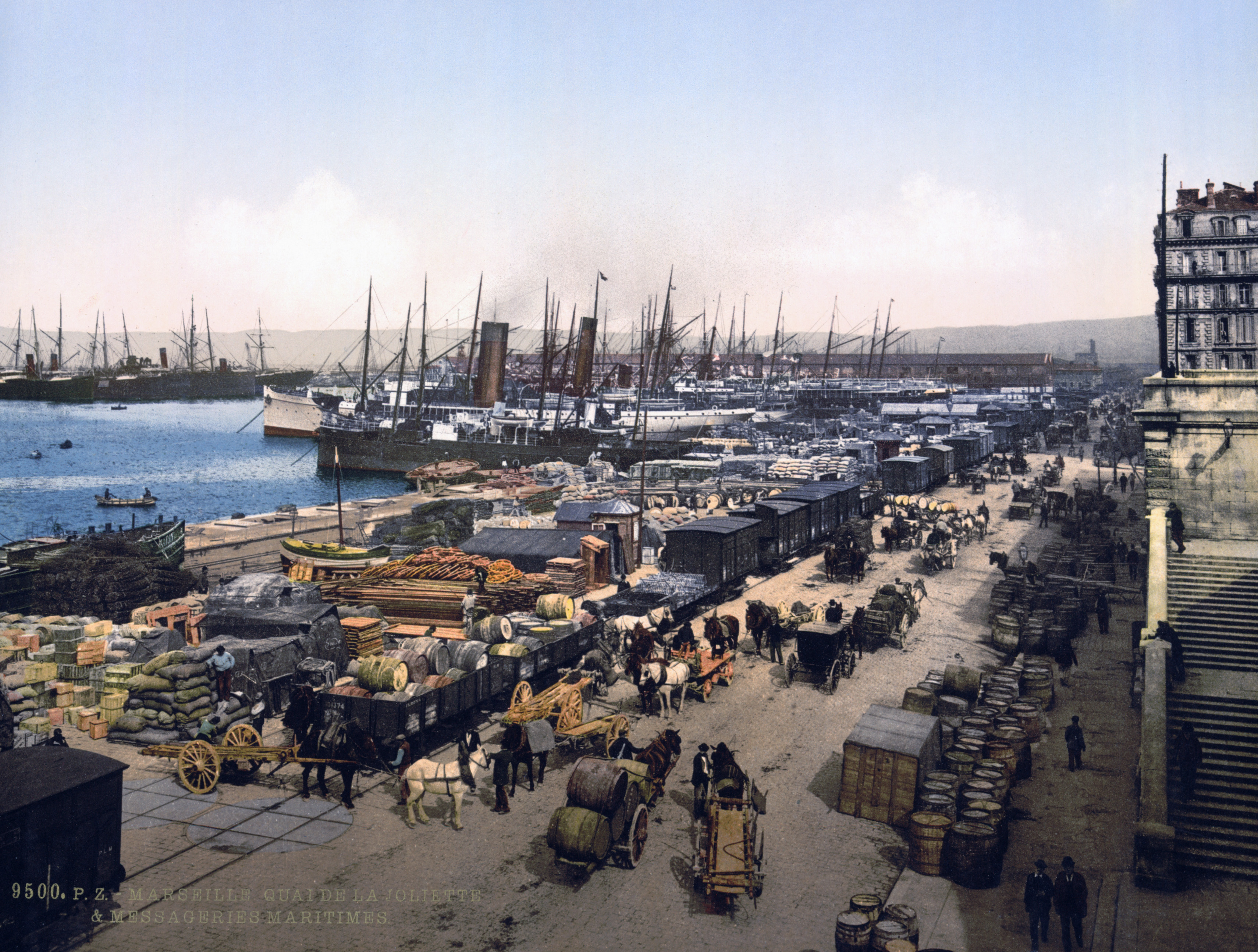 Quay de la Joliette, Marseilles, France